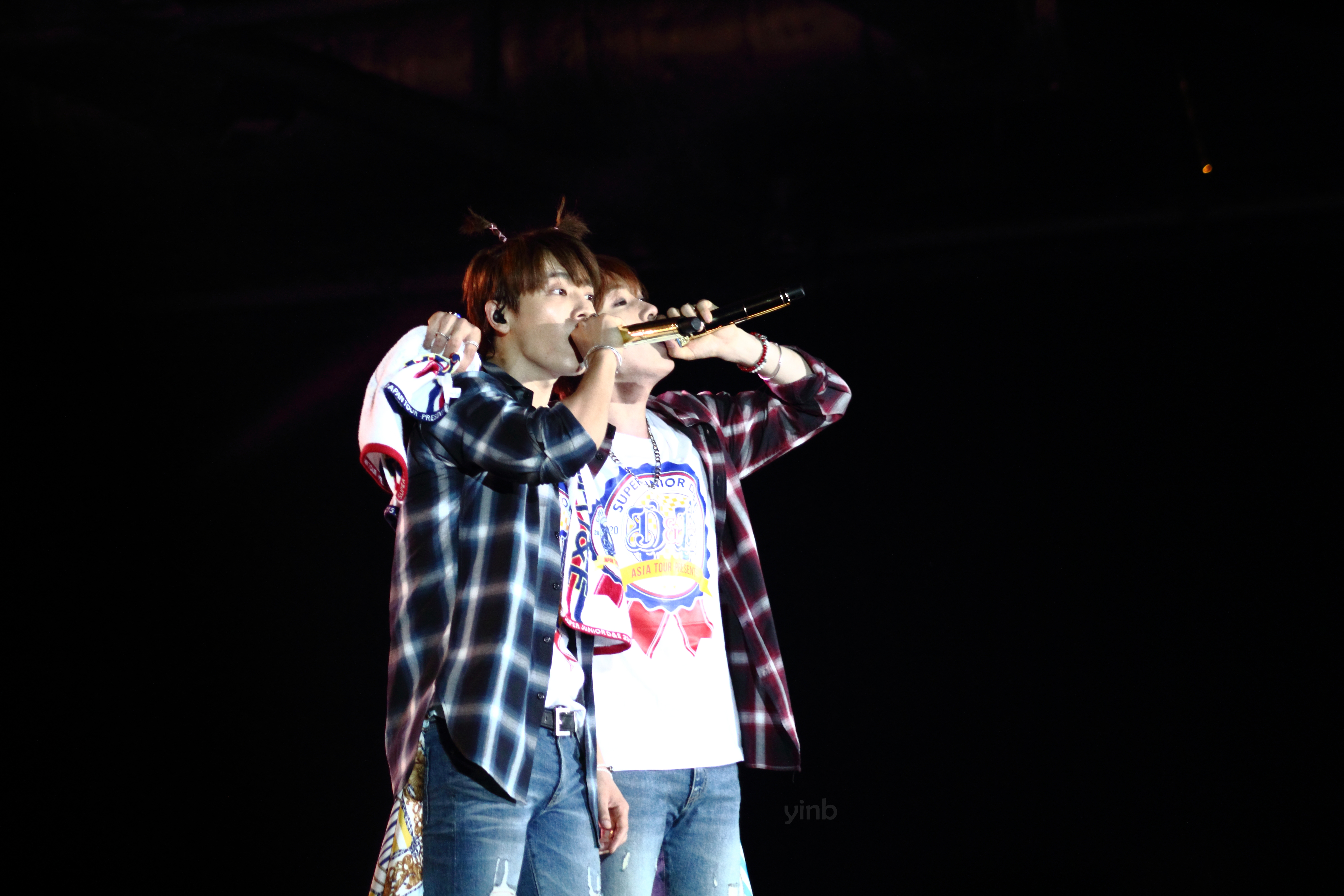 D&E Present in Hong Kong 2015